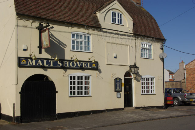 Malt Shovel, Ryton on Dunsmore One of two pubs in Ryton village; this one is in the less populous area north of the A45.